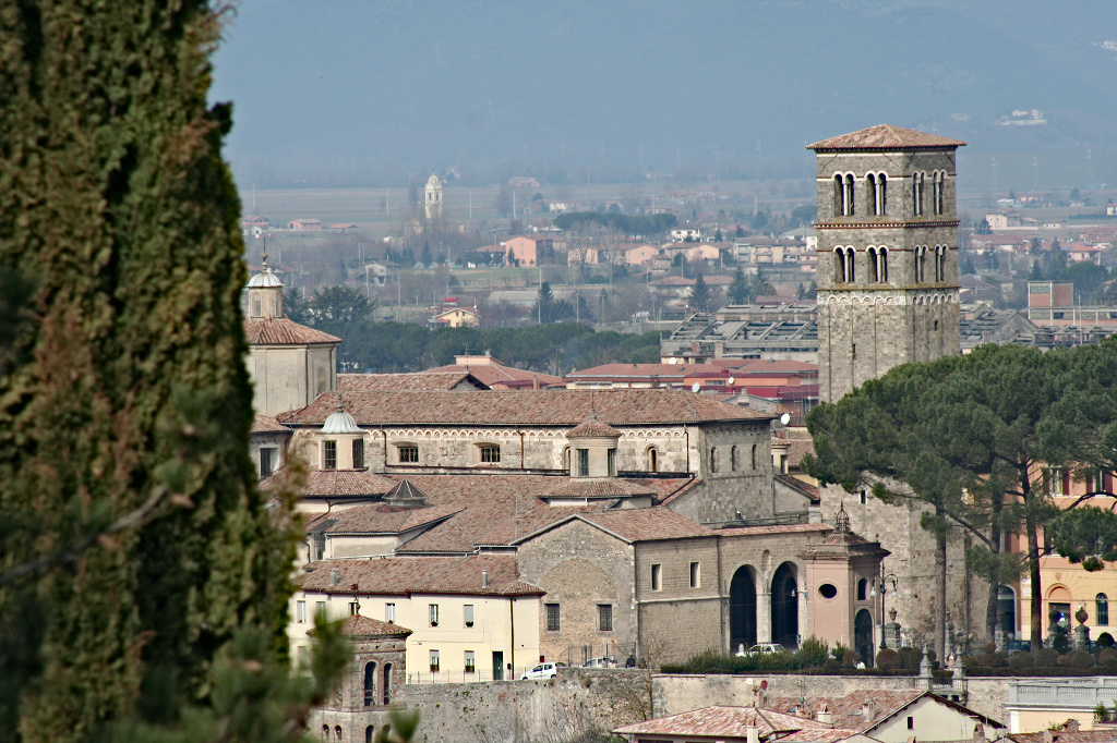 View of the Cathedral from Sant'Antonio al monte - Rieti (Lazio, Italy)